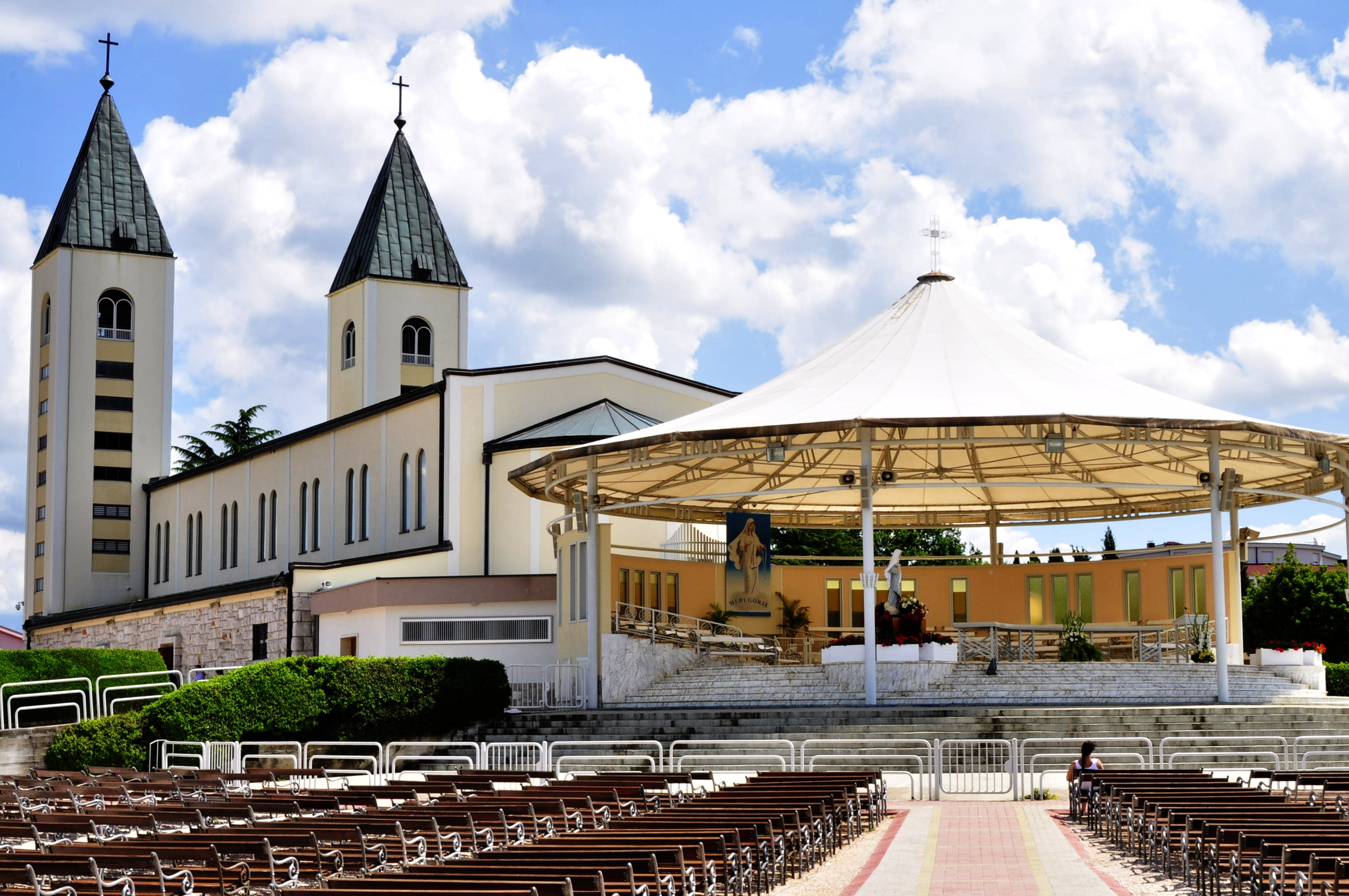 St. Jacob church in Međugorje, Bosnia.